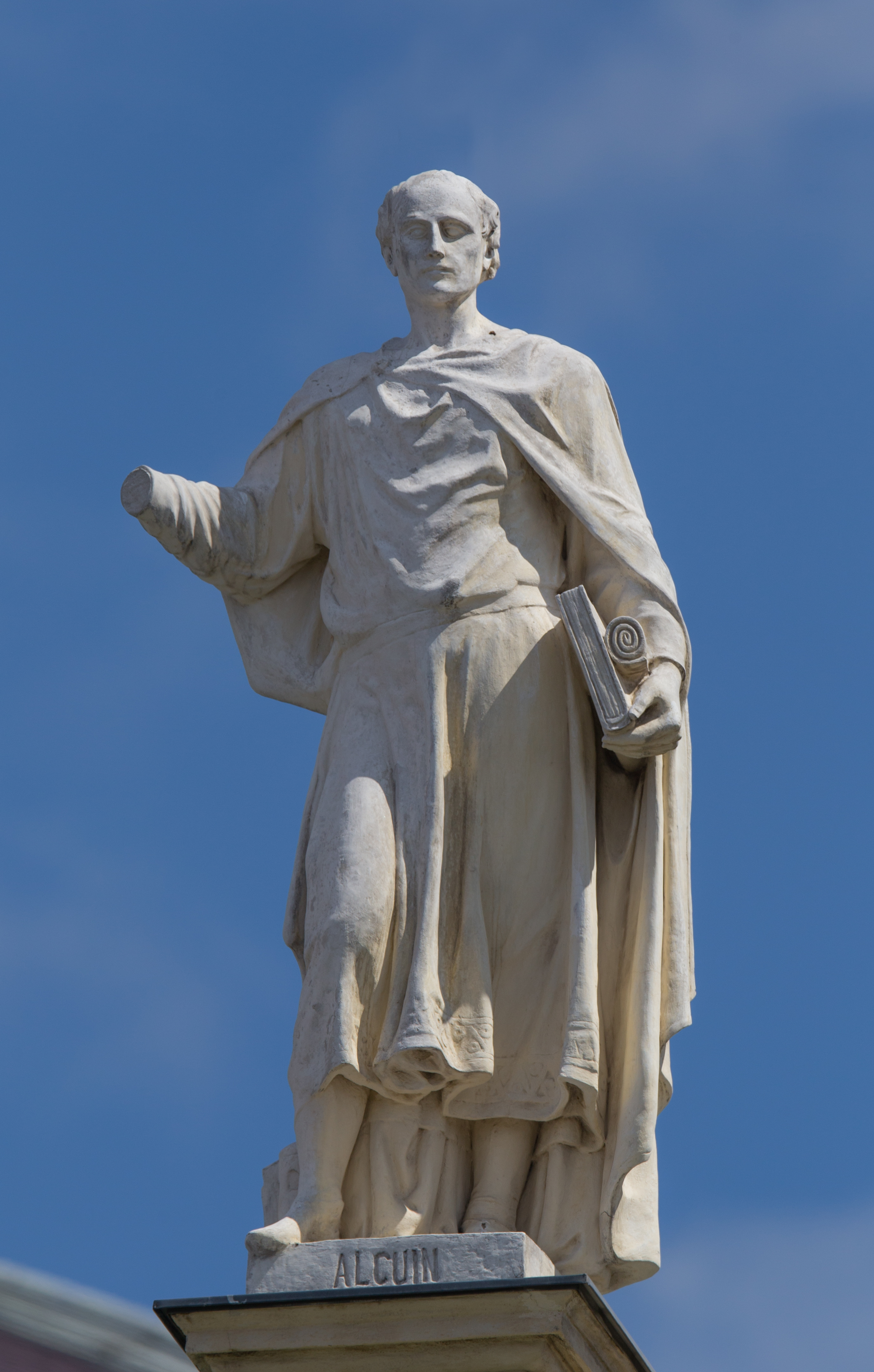 Kunsthistorisches Museum in Vienna Figure on the roof, Alguin The making of this work was supported by Wikimedia Austria. For other files made with the support of Wikimedia Austria, please see the category Supported by Wikimedia Österreich.